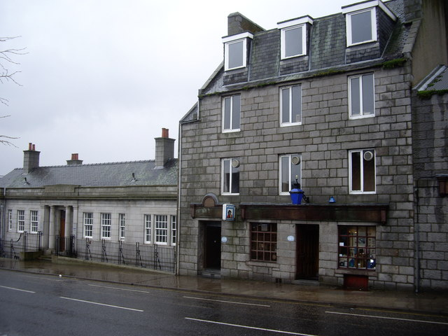 Buildings on Gallowgate Offices (formerly Ogston & Stamp) on the left; a shop to the right. The latter shows signs of once being both a pub (McEwans sign), and a cop shop (blue lamp)!